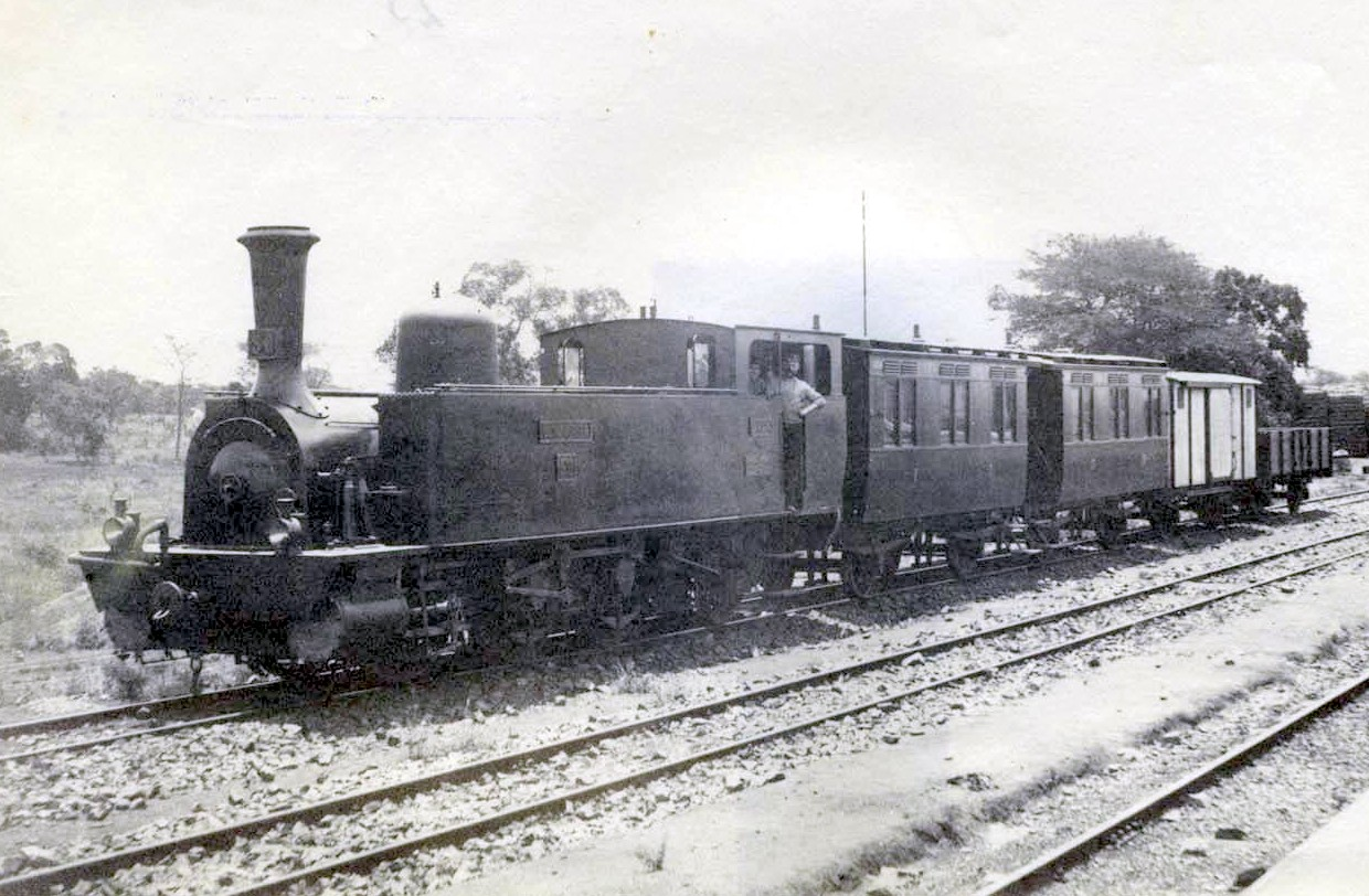 NZASM 40 Tonner (0-6-2T) no. 50 S.W. Burger at Komatipoort